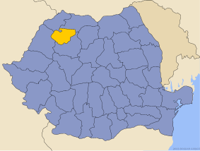 Location of Sălaj County in Romania.